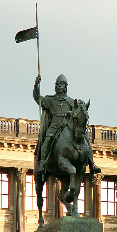 Equestrian statue of Wenceslaus I, Duke of Bohemia in Prague, sculpted by Josef Václav Myslbek (Czech Republic).